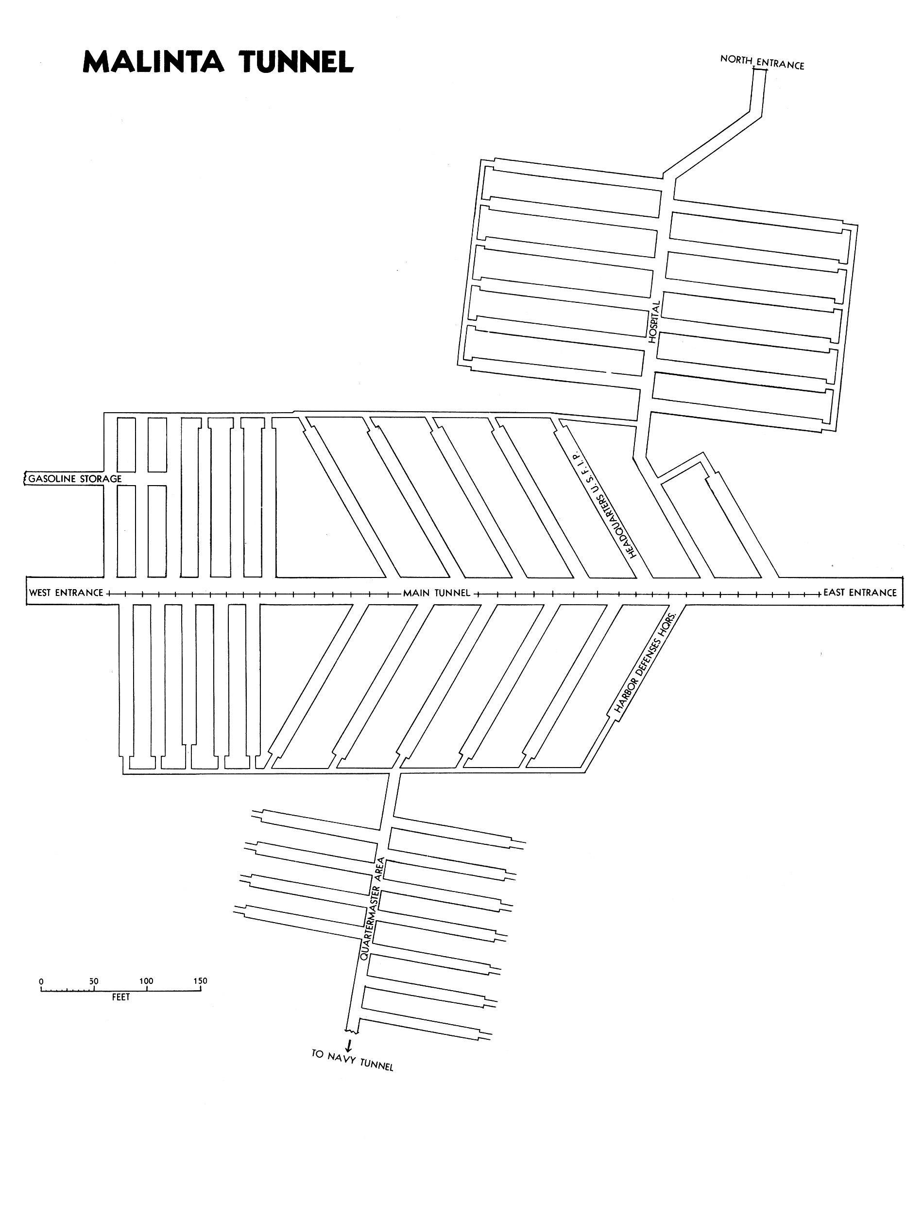 Malinta Tunnel diagram.